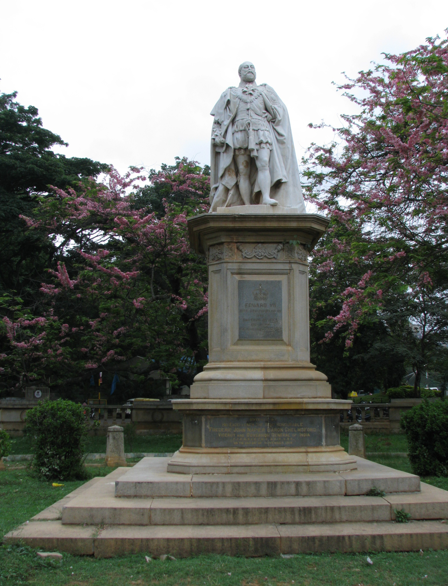 King Edward VII Cubbon Park